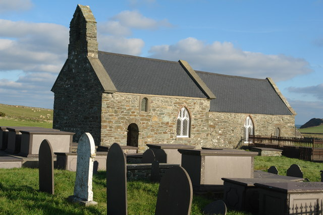 St Rhwydrus Church